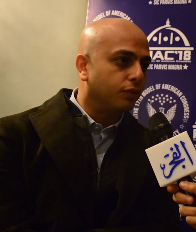 Ahmed Mourad in 2017